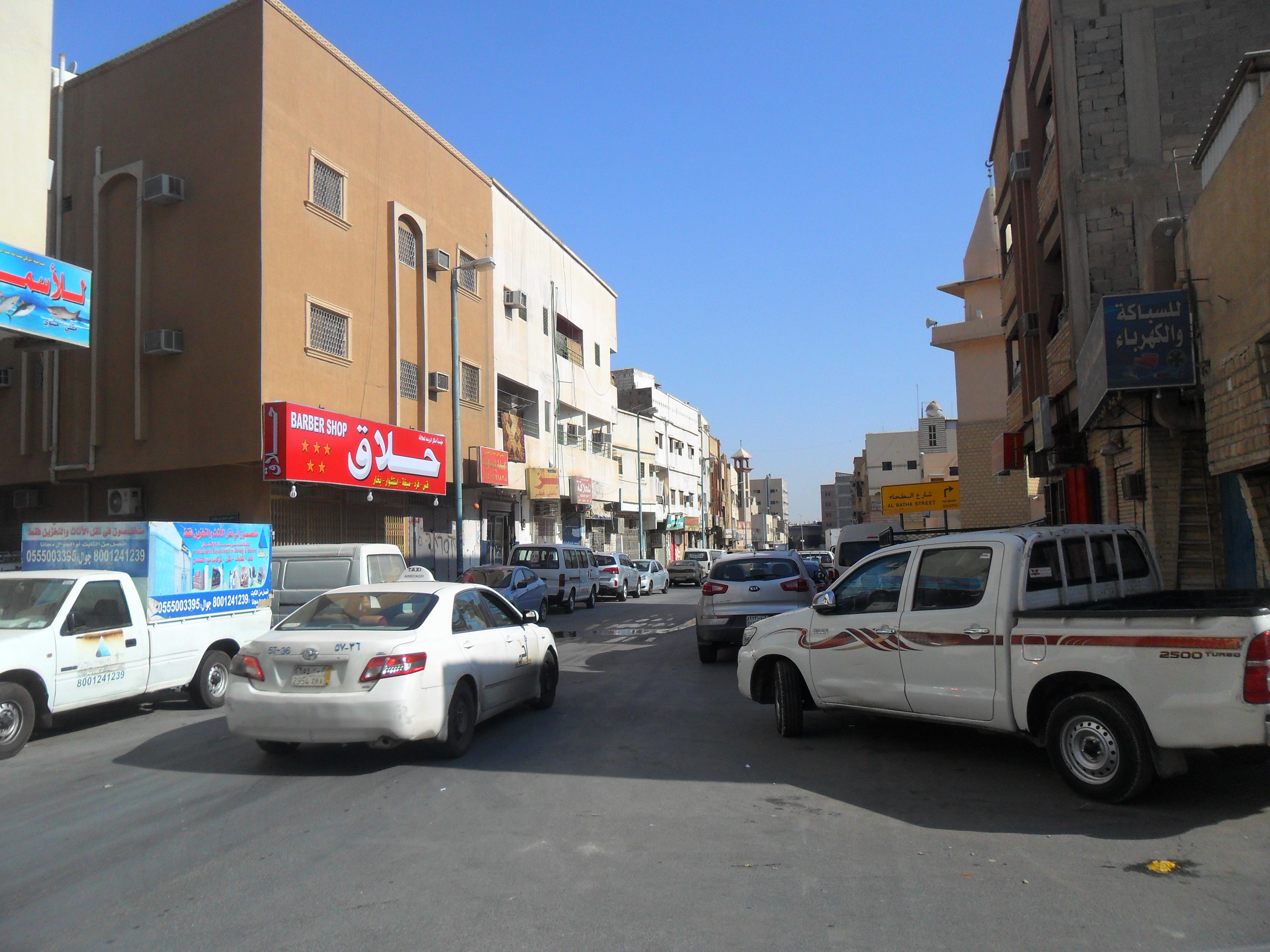 The First Picture of Manfuha in Riyadh City of Saudi Arabia.